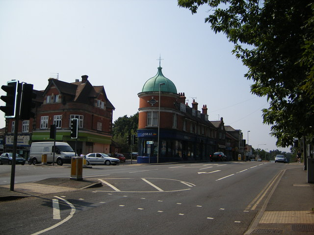 Bordon. Junction of the old A325 and Chalet Hill, Bordon